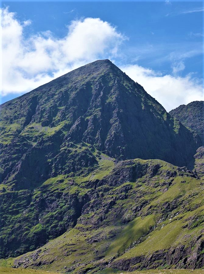 Eastside of Carrantuohill in the Summer of 2016.